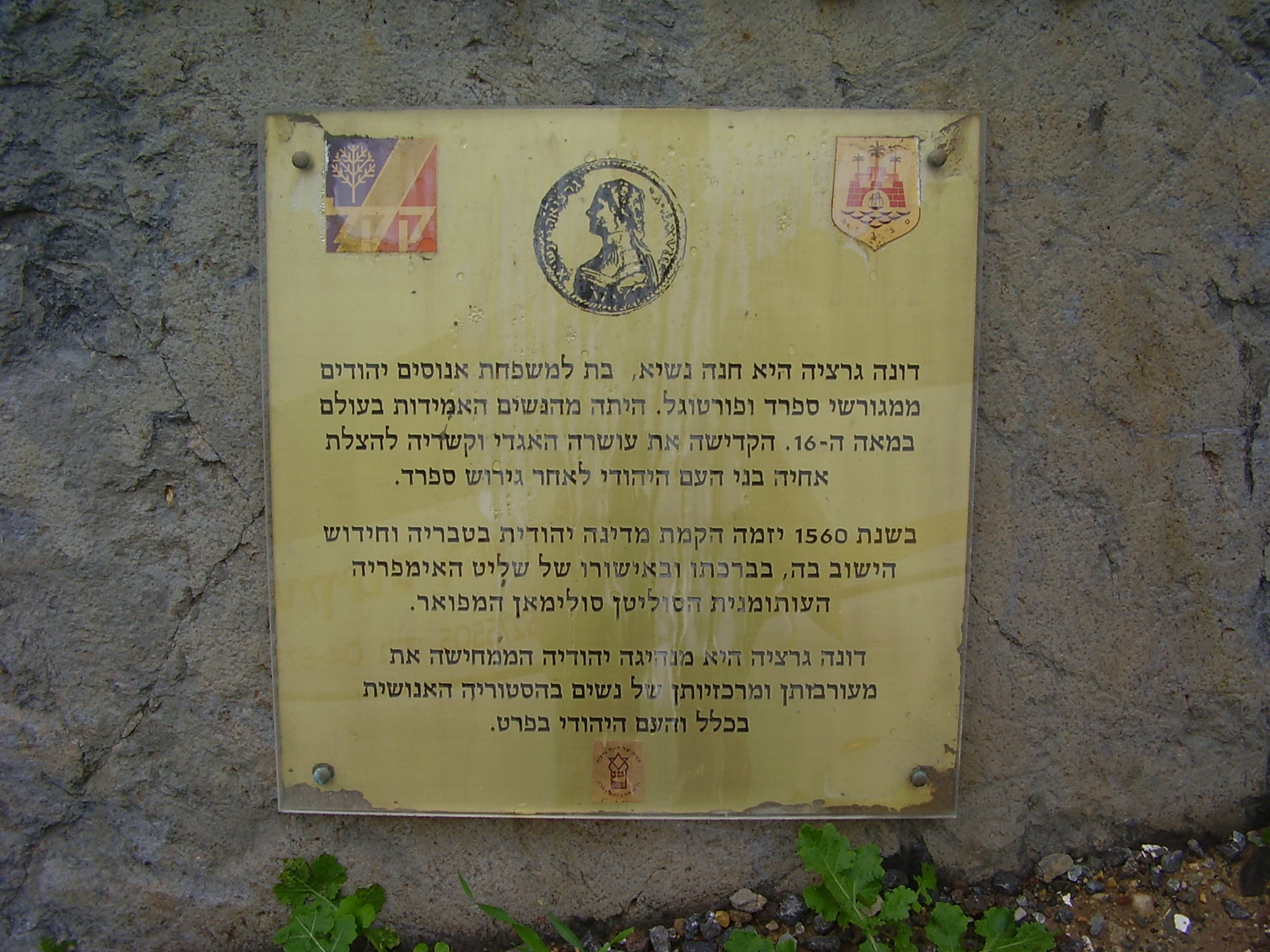 dona gracia lookout, tiberias